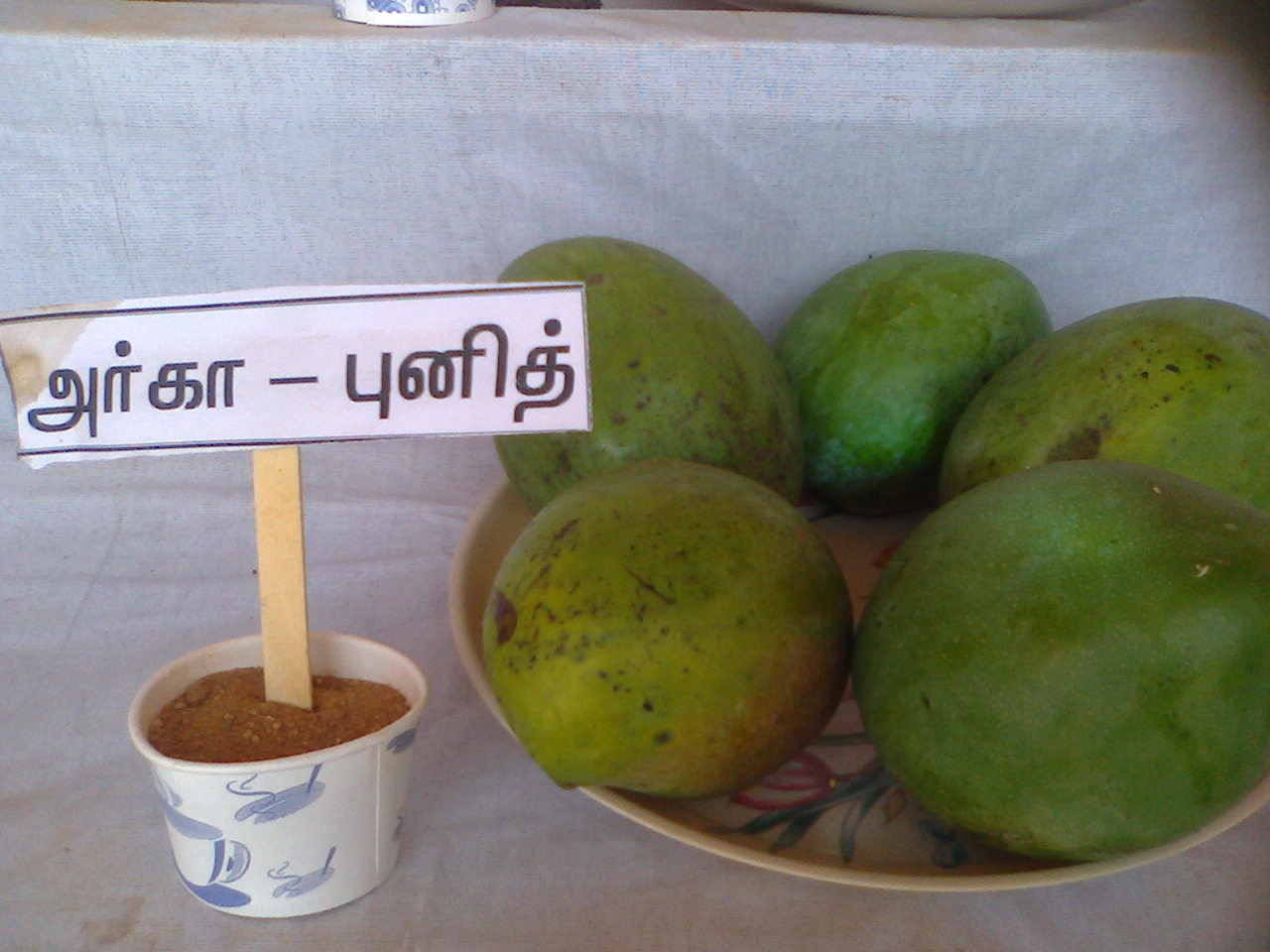 அர்கா புனித்